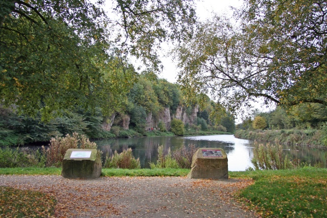 Creswell Crags and Crags Pond. One of several limestone gorges in this area, Creswell Crags is one of the oldest known inhabited places in Britain. There are numerous caves on each side of the valley which were occupied by Neanderthal Man 40,000 years ago. The earliest remains of modern man known in Britain have also been discovered there, dating back 13,000 years to the last Ice Age. In more recent times, Creswell was once part of the Welbeck estate, and the Crags Pond was created by the Duke of Portland as a duck shooting lake.